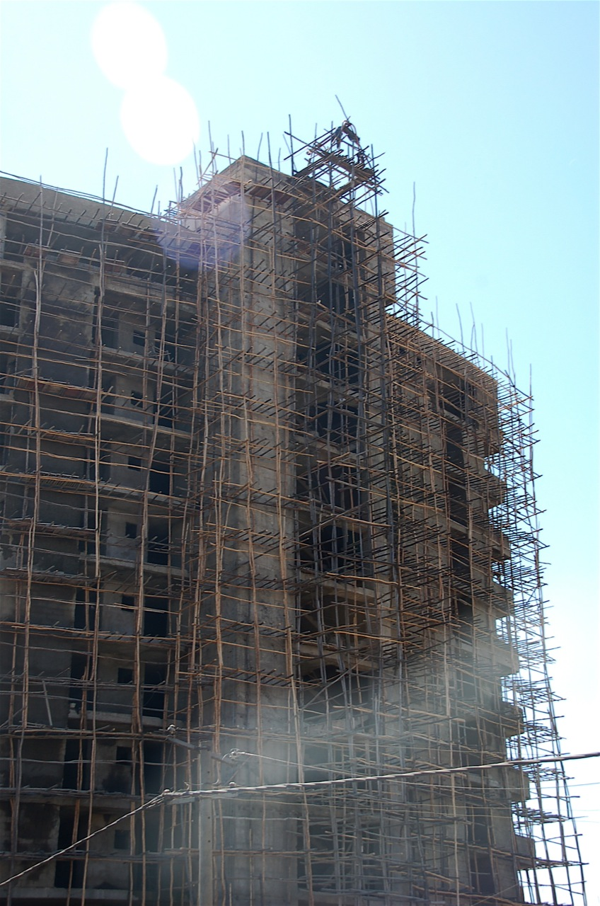 Scaffolding in Addis Abeba.